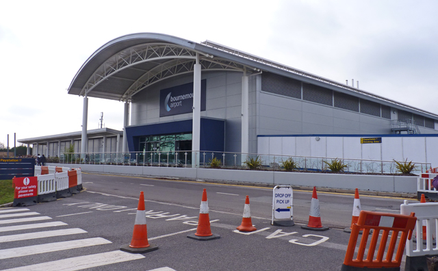 This new Departures Hall was opened in the summer of 2010, replacing an old building. For a picture of the old building click here SZ1197 : Bournemouth International Airport. Construction activities continue at the airport, as a new Arrivals Hall is being built, due to open in late 2011.